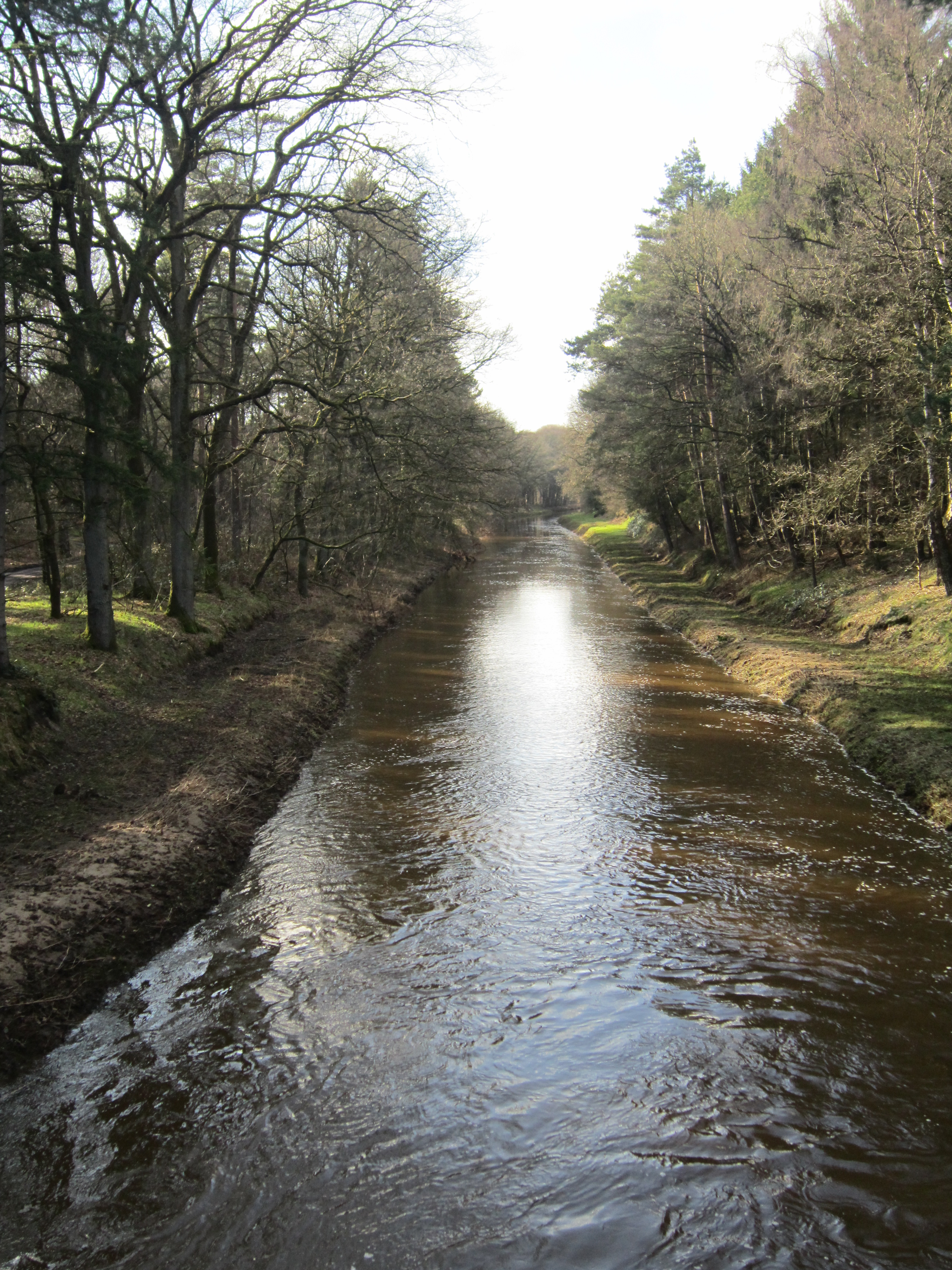 Hahnenmoorkanal west of the road Herzlake - Berge